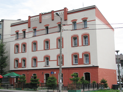 Świętej Barbary Street in Chorzów Klimzowiec, Poland